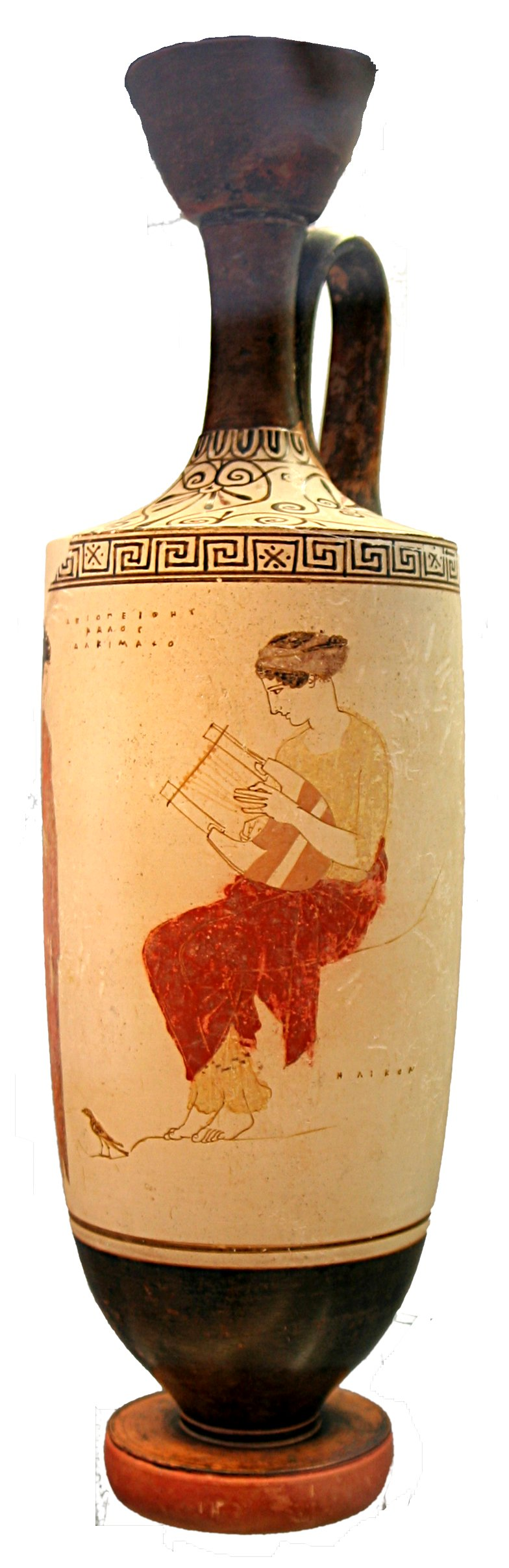 Muse playing the lyre. The rock on which she is seated bears the inscription ΗΛΙΚΟΝ / Hēlikon. Attic white-ground lekythos, 440–430 BC.